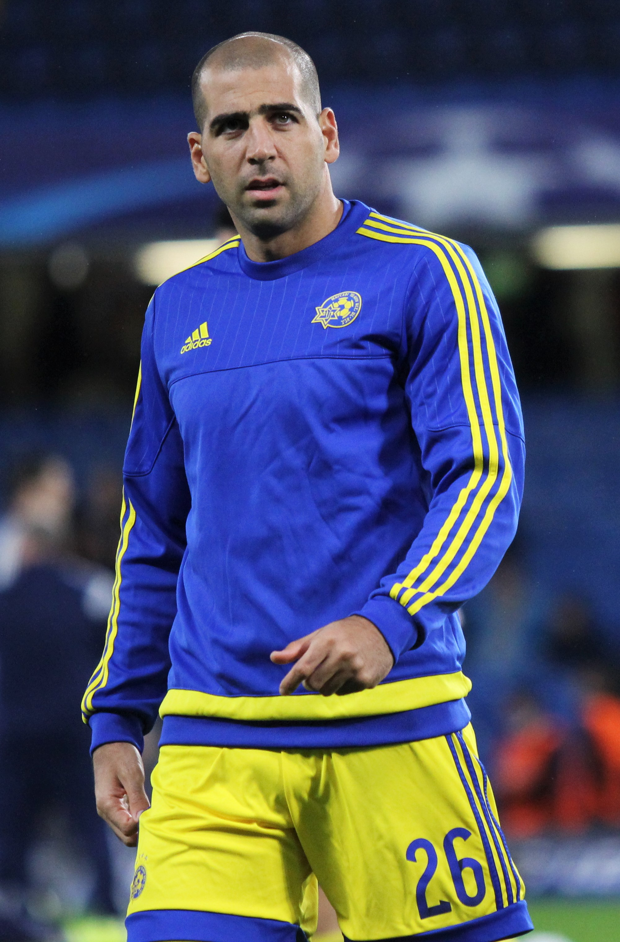 Tal Ben Haim I of Maccabi Tel-Aviv during the warm up before the Champions League game against Chelsea.